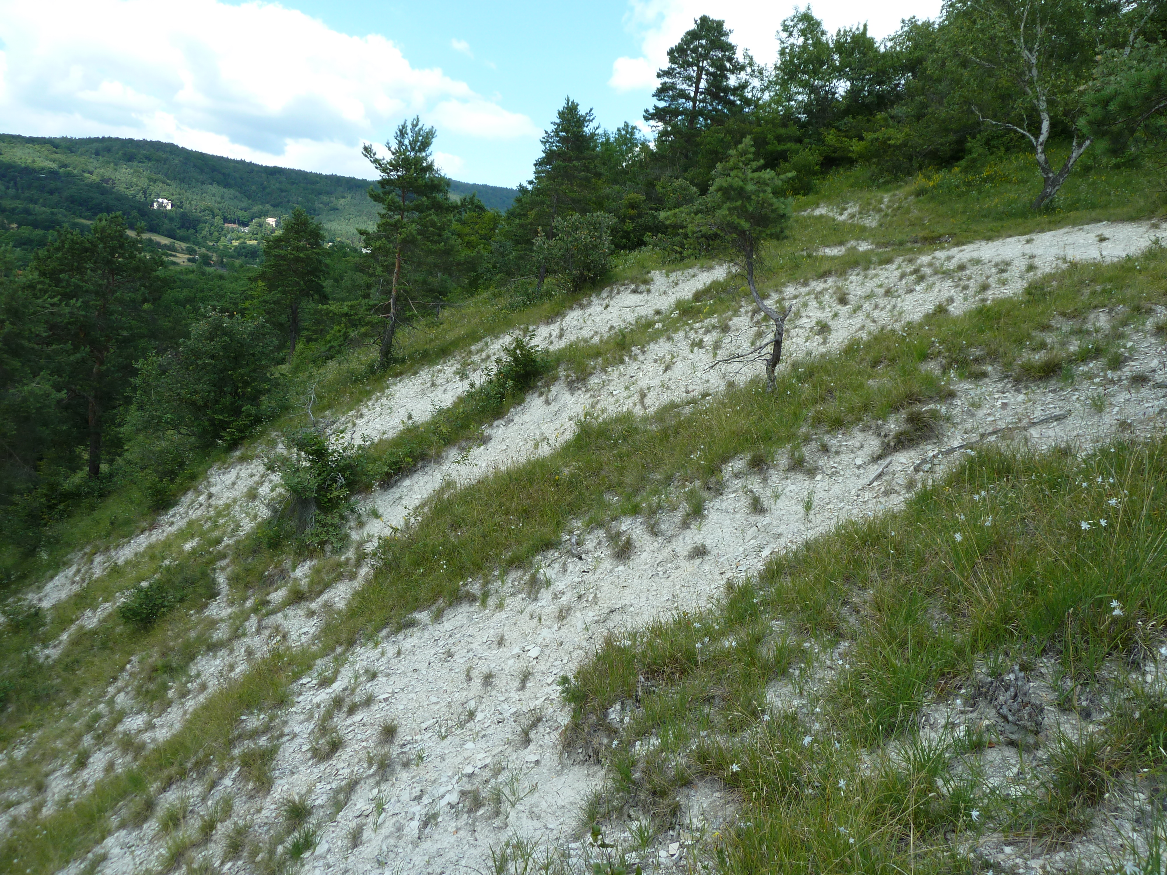 National nature monument "Bílé stráně" near Litoměřice (Czech Republic)